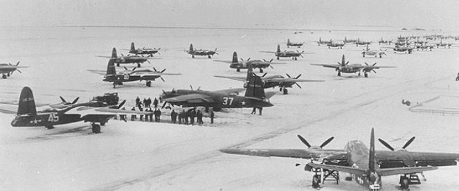 B-26s in winter snow, Dodge City AAF, Kansas